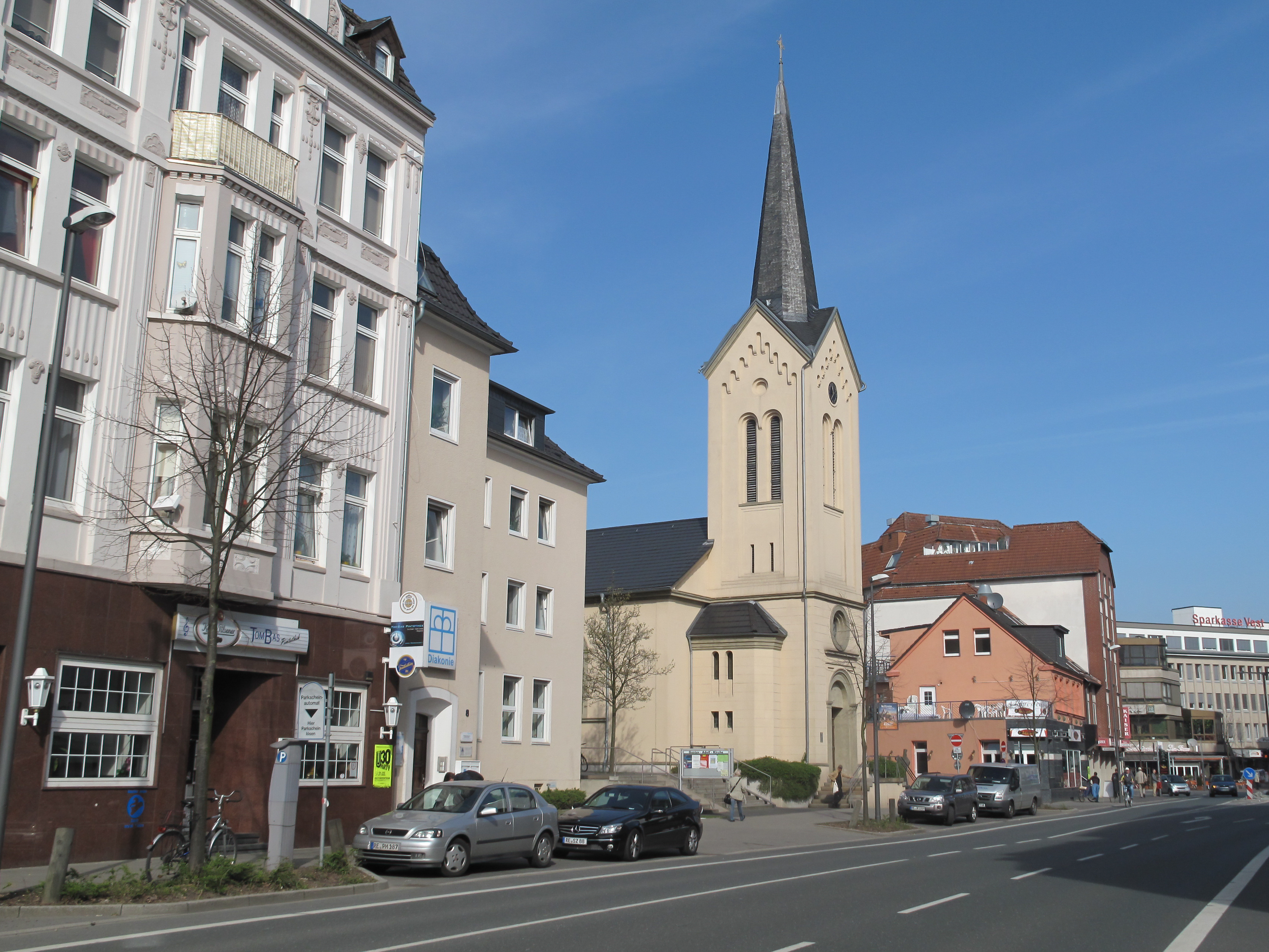 Recklinghausen, church: die Gustaf Adolf Kirche